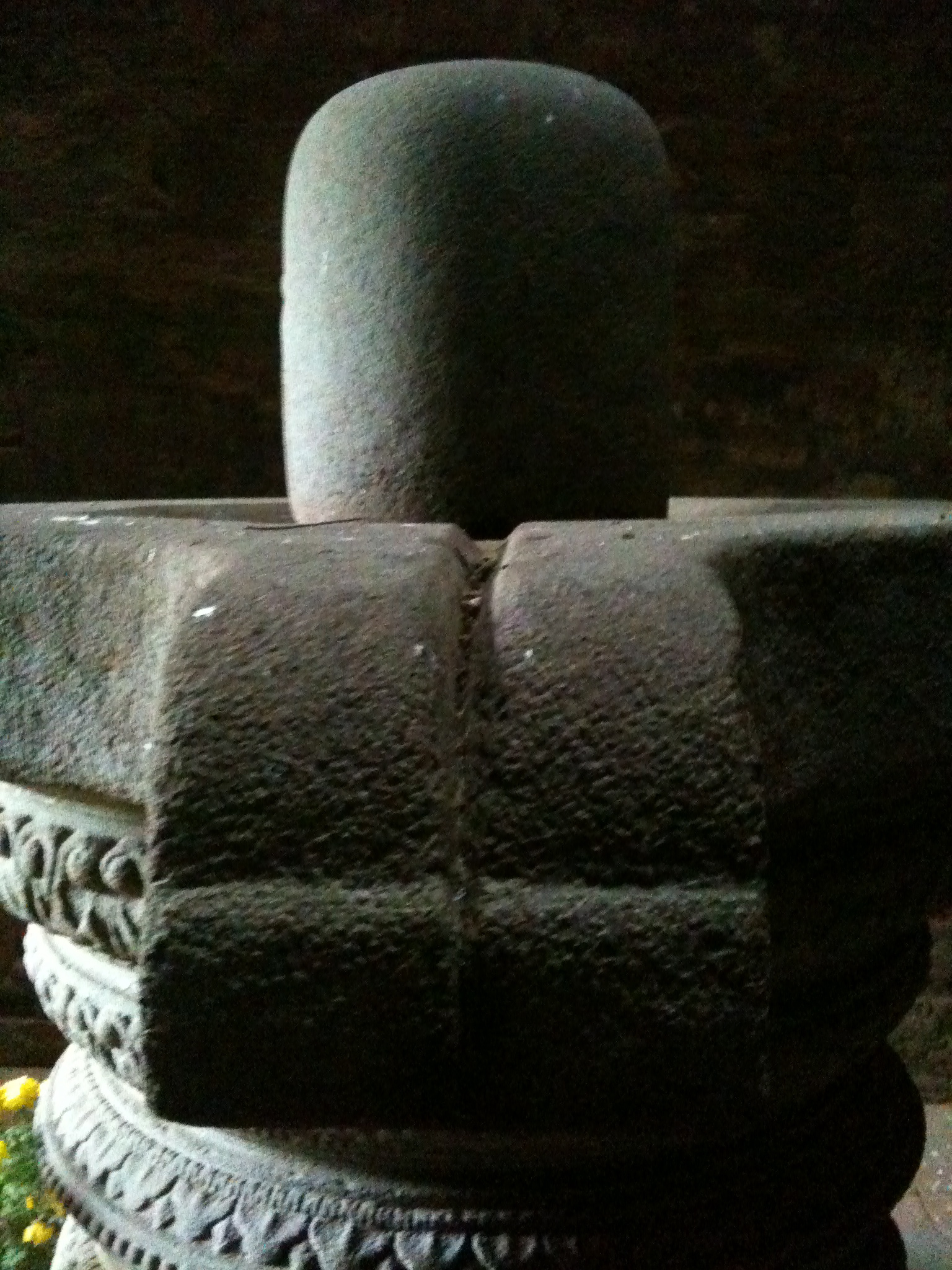 Side view of the lingam inside one of the Cham towers at Thap Doi, in Quy Nhon, Binh Dinh Province, Vietnam.